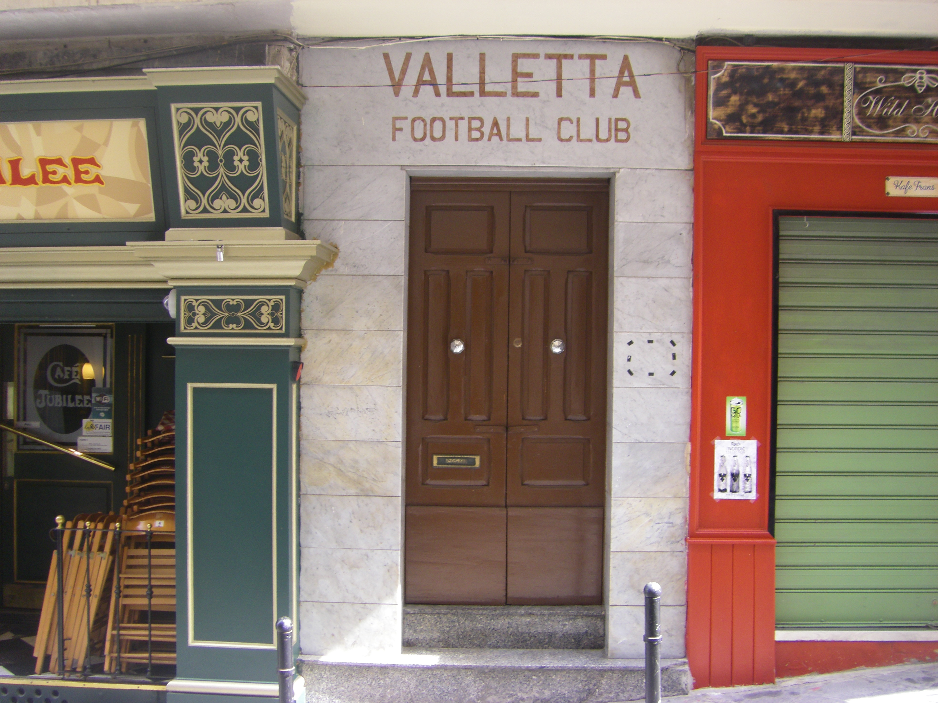 Entrance to the club office of Valletta FC in Valletta, Malta